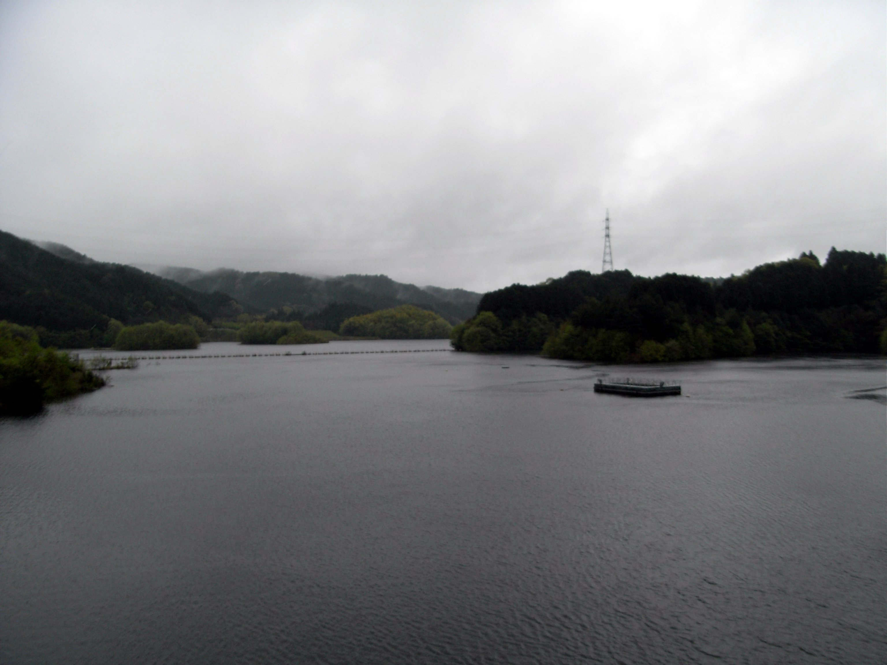 Lake Nunomeko(Nunomegawa river/Nara Pref./Japan)